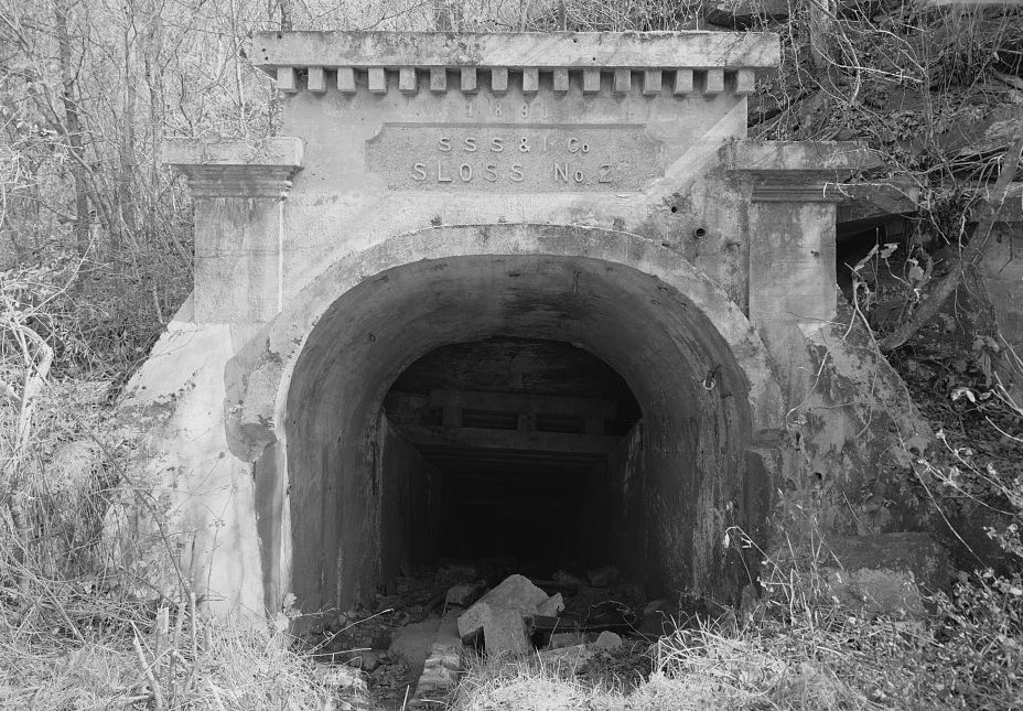 Sloss Red Ore Mine No. 2, Red Mountain, Birmingham vicinity, Jefferson, AL. ELEVATION OF MINE PORTAL.)